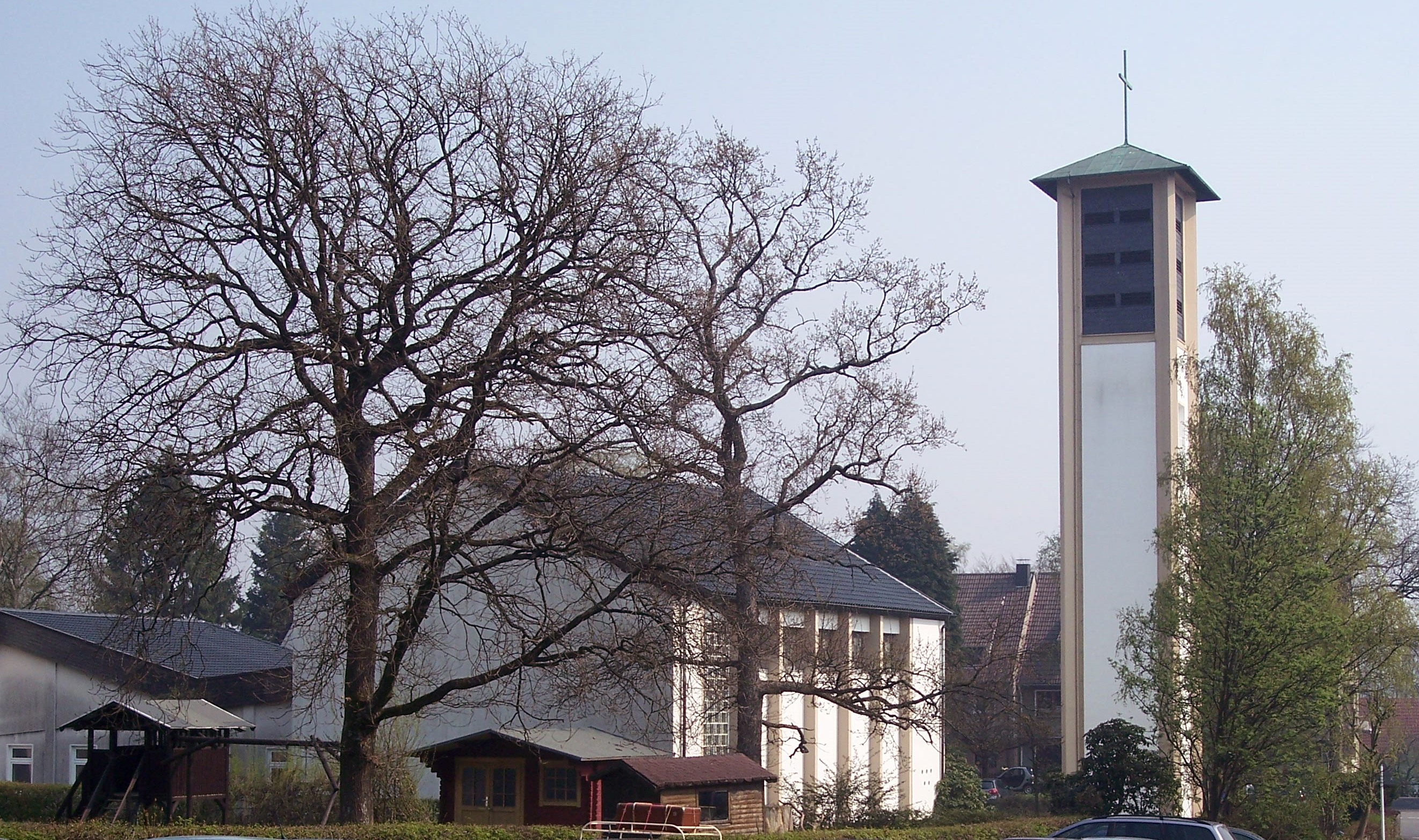 Lüdenscheid-Bierbaum, Apostelkirche (Church of the Apostels)